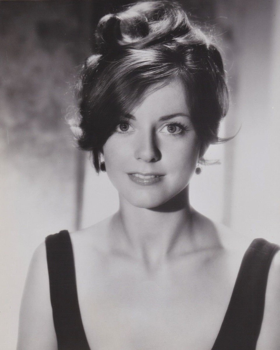 Promotion photo of Katherine Justice in The Way West, 1967.